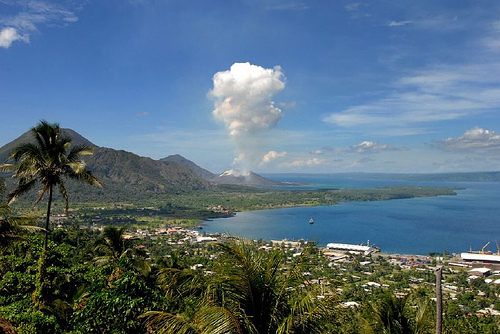 Rabaul, PNG with Tarvurvur volcano, Location: Rabaul.